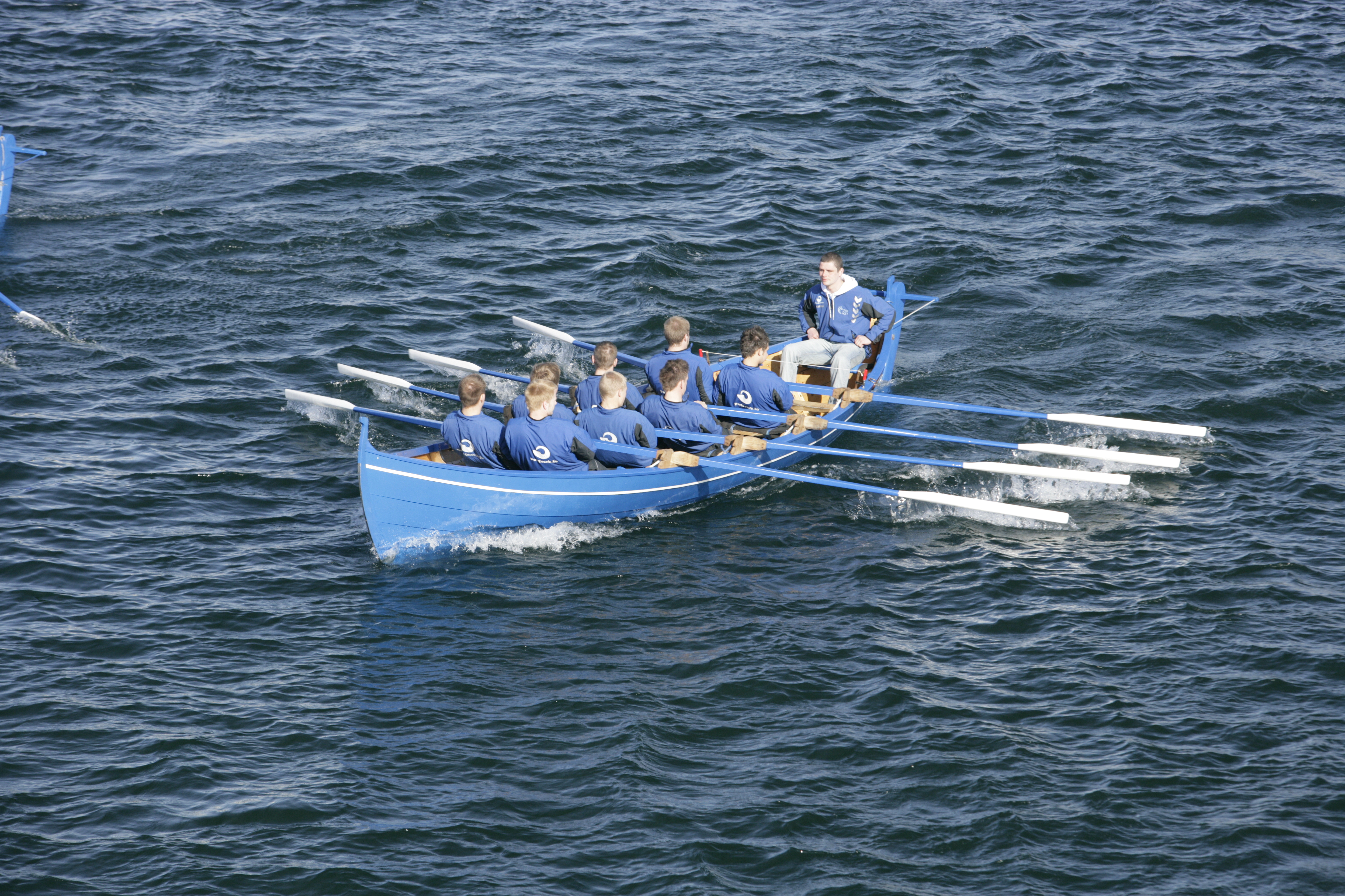 'Knørrur' a Faroese rowing boat, 24 ft.